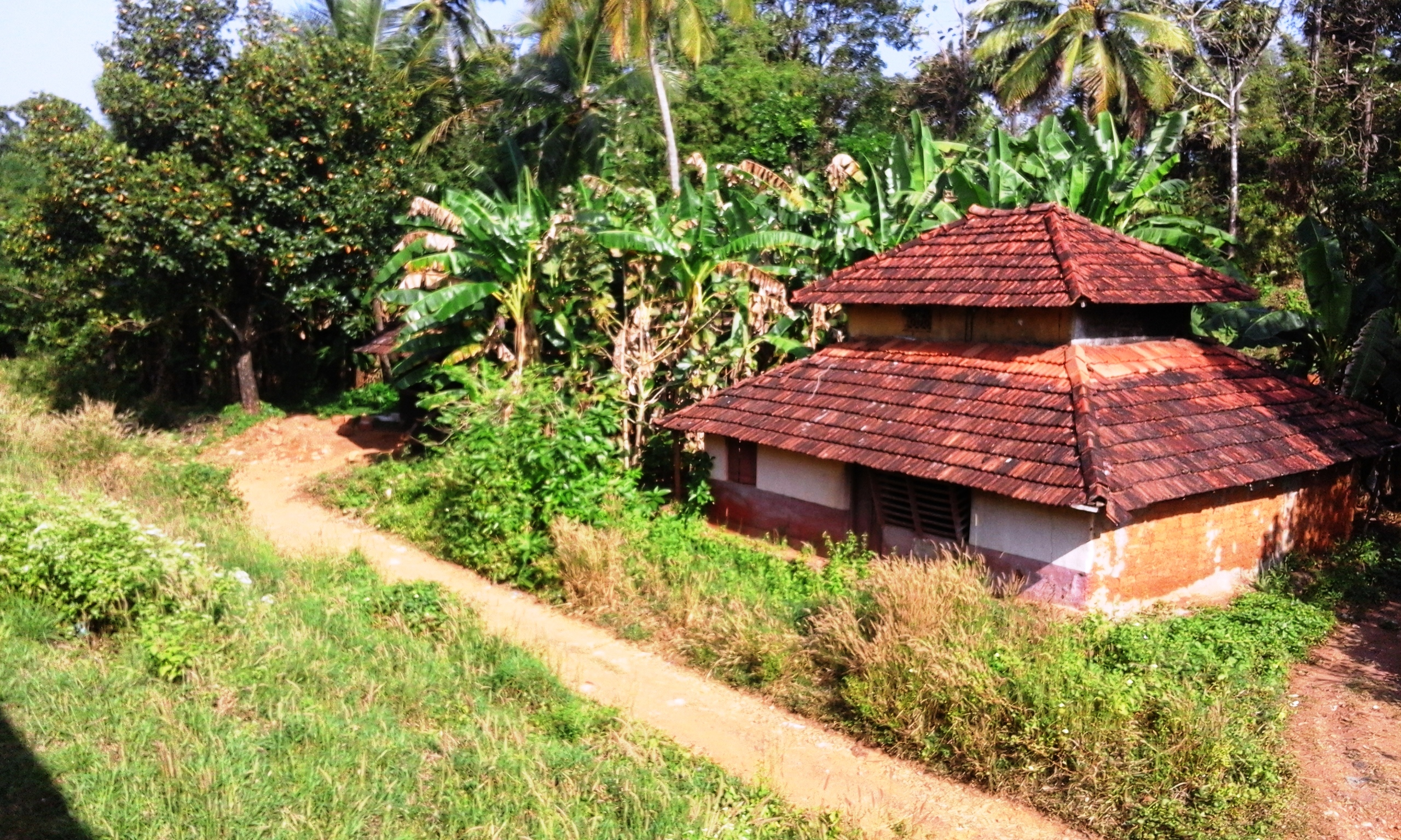 Shornur, Kerala, Indai.